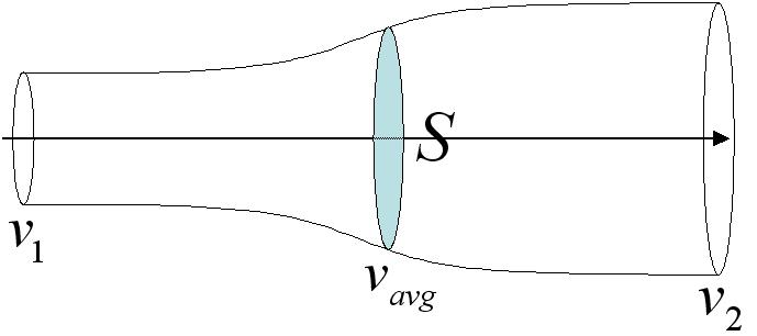 A diagram built to describe Betz' law. This depicts dynamic fluid throughout a thin rotor (blue), which provides the energy to the rotor and loses some kinetic energy with reducing the velocity v1 to v2.